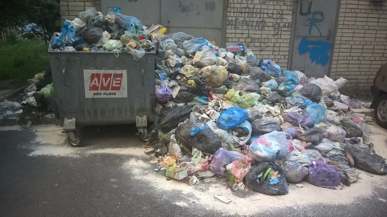 Waste container on vul. Pancha 9, Lviv, Ukraine